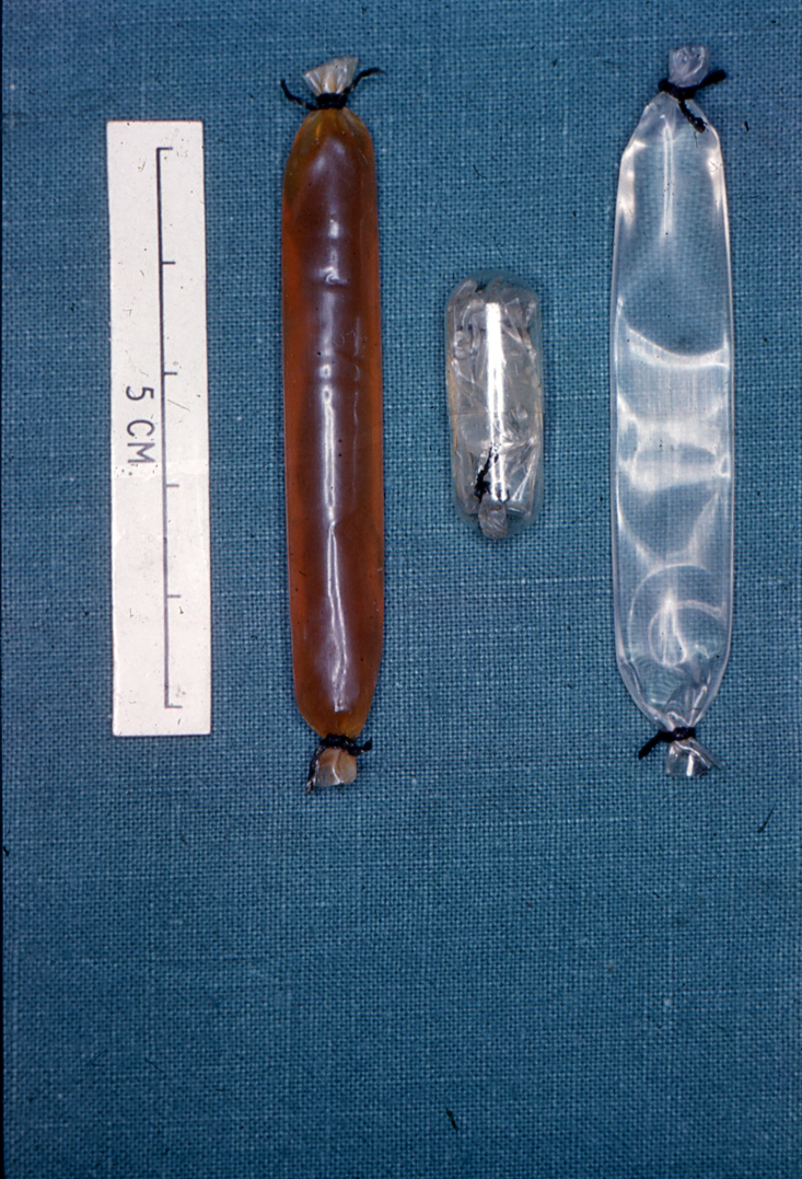 Stool dialysis machine pioneered by Oliver Wrong